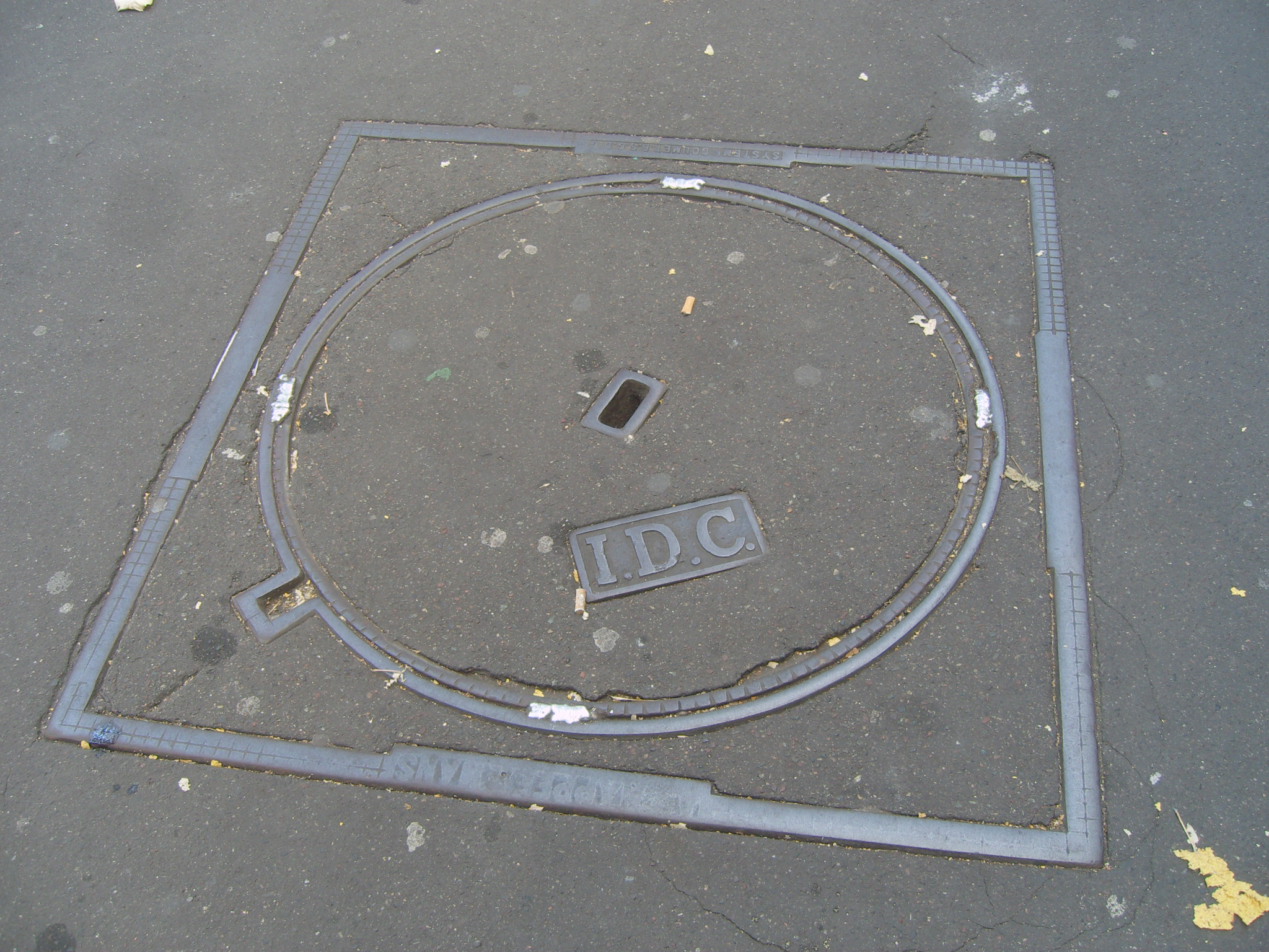 Paris 13e arrondissement, rue Bobillot, manhole cover "Inspection des Carrières"